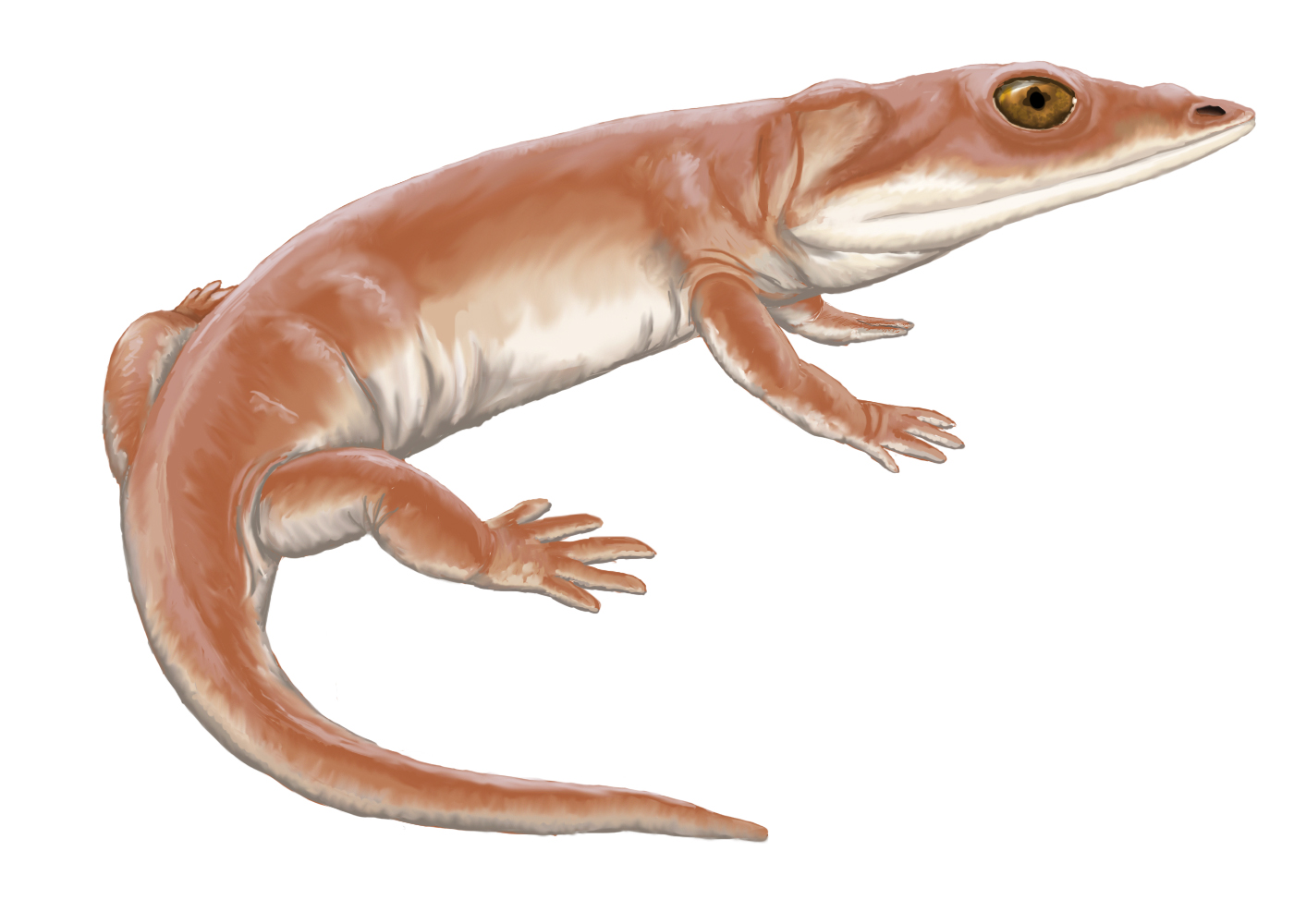 Life restoration of Lapillopsis nana. Based on figures in "Lapillopsis, a new genus of temnospondyl amphibians from the Early Triassic of Queensland" by A. A. Warren and M. N. Hutchinson (Alcheringa 14(2): 149-158).